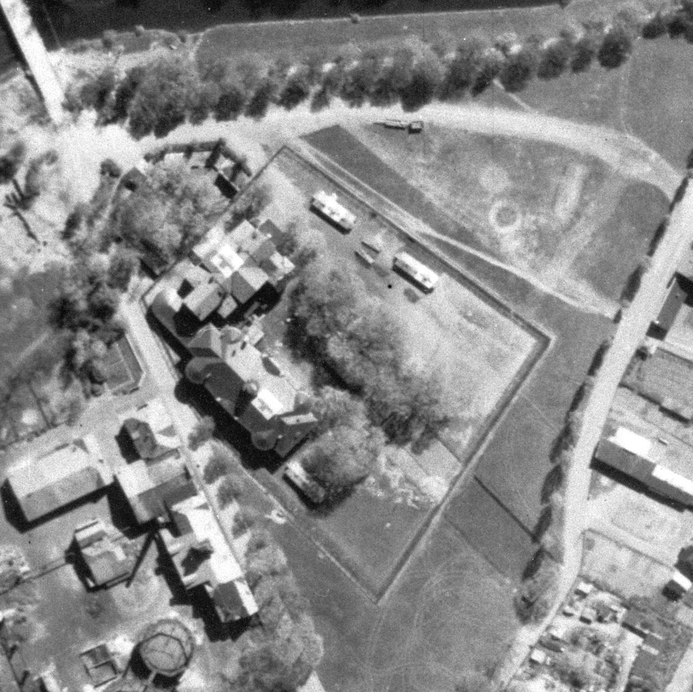 Aerial photo of the buildings Volkshaus in City Meiningen as prisoners of war hospital Stalag IX C(b) in April 1945. The fencing, the barracks and the red crosses on the roofs are clearly recognizable.